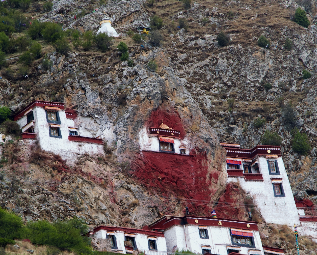 Drak Yerpa Monastery, north east of Lhasa, Tibet, on May 25, 2015